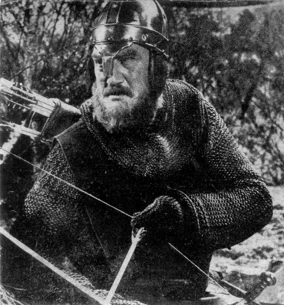 Archie Duncan as Little John